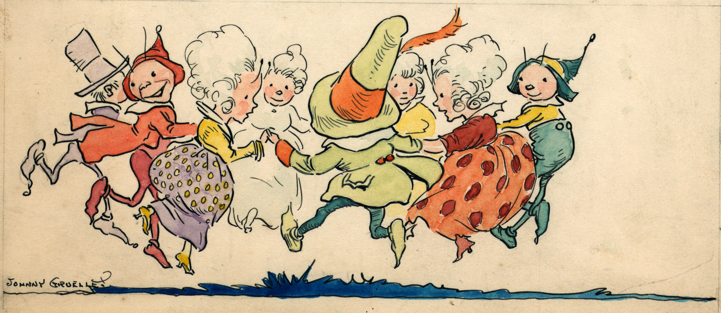 This drawing, showing gaily dressed elves dancing, is for the story Tim Tim Tamytam, about an elf and his wife who are helped by other elves to find a new home after their old home is destroyed. Published in: Friendly fairies by Johnny Gruelle. New York, Chicago [etc.] : P.F. Volland Company, 1919.